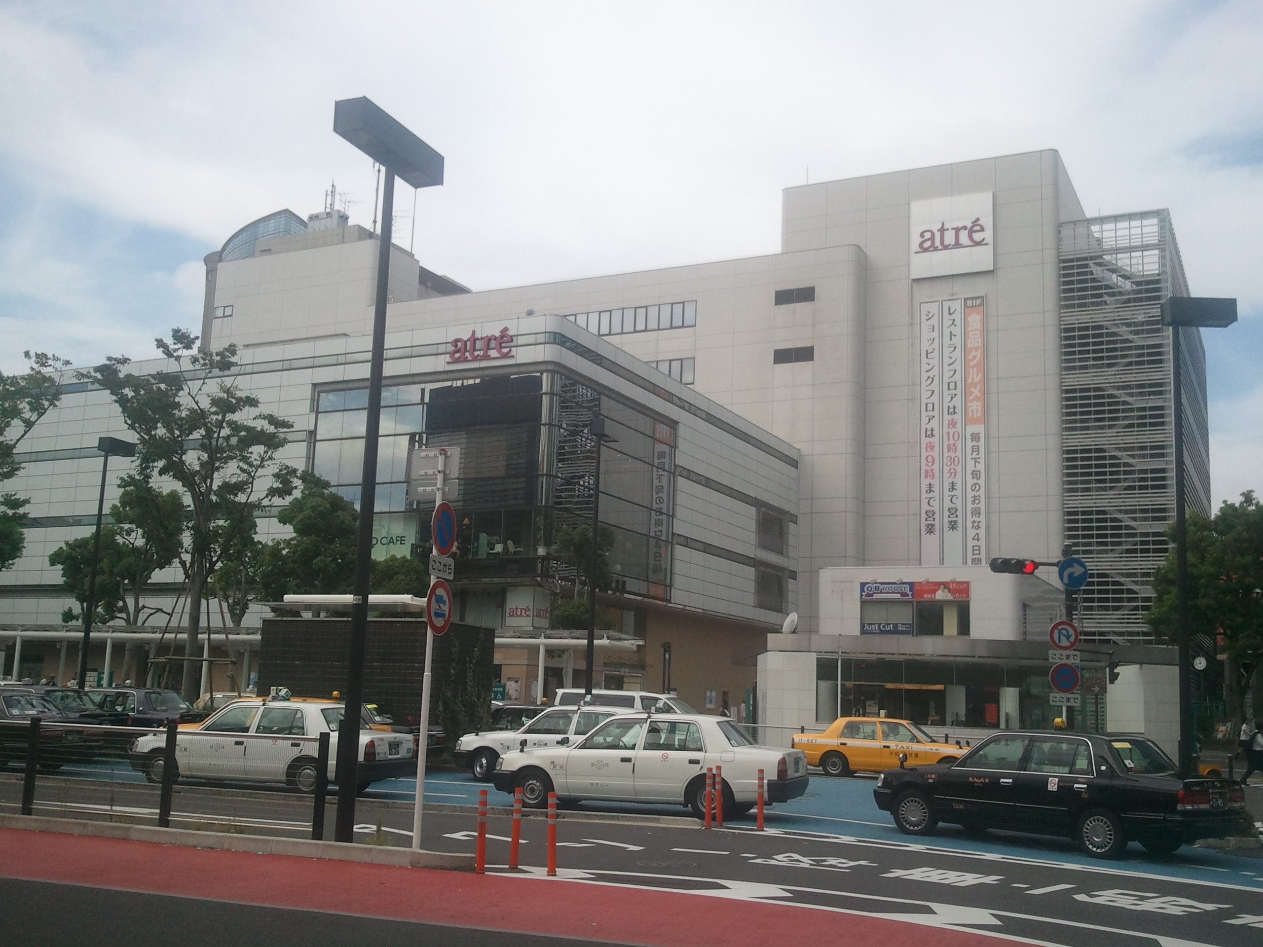 atré Kawasaki